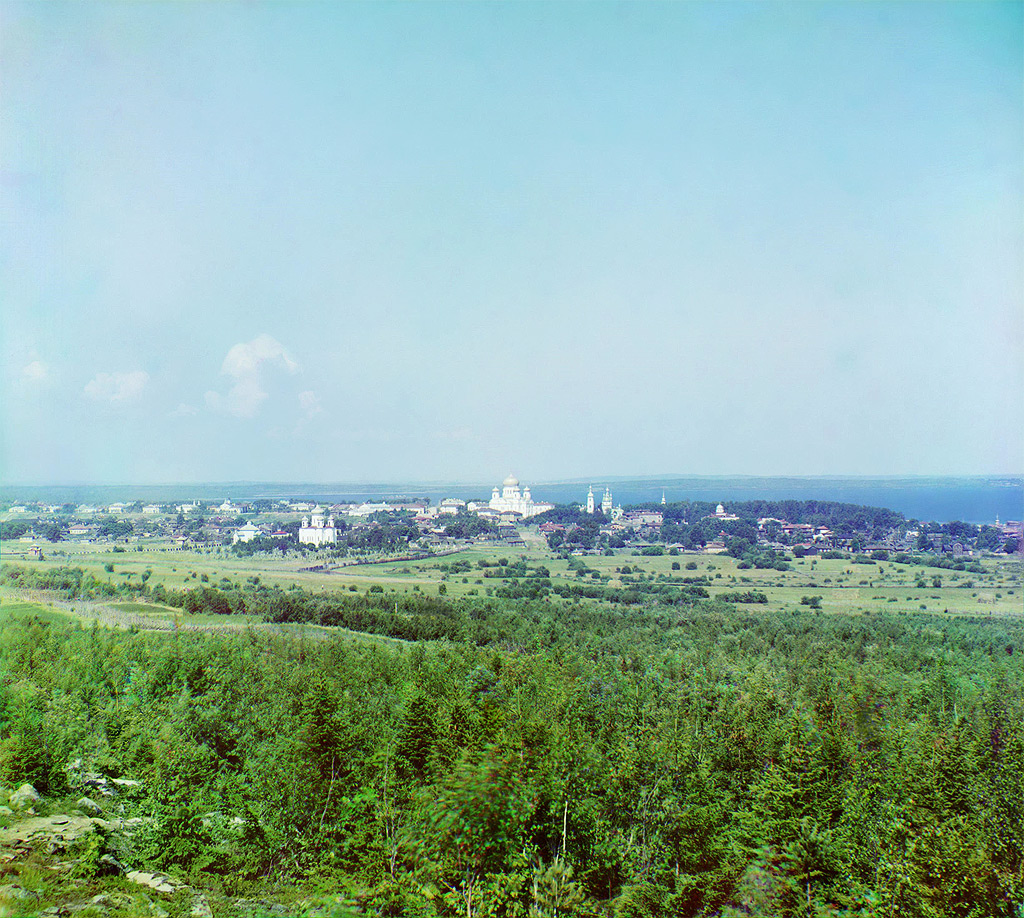 Petrozavodsk, 1915